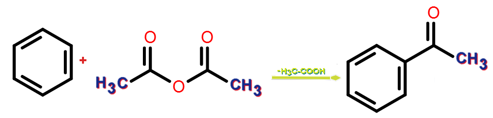 Acetophenone synthesis from benzene and acetic anhydryde